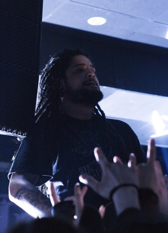 Ill nino in Prague